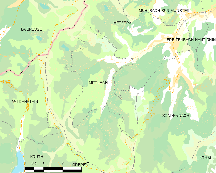 Map of French municipality